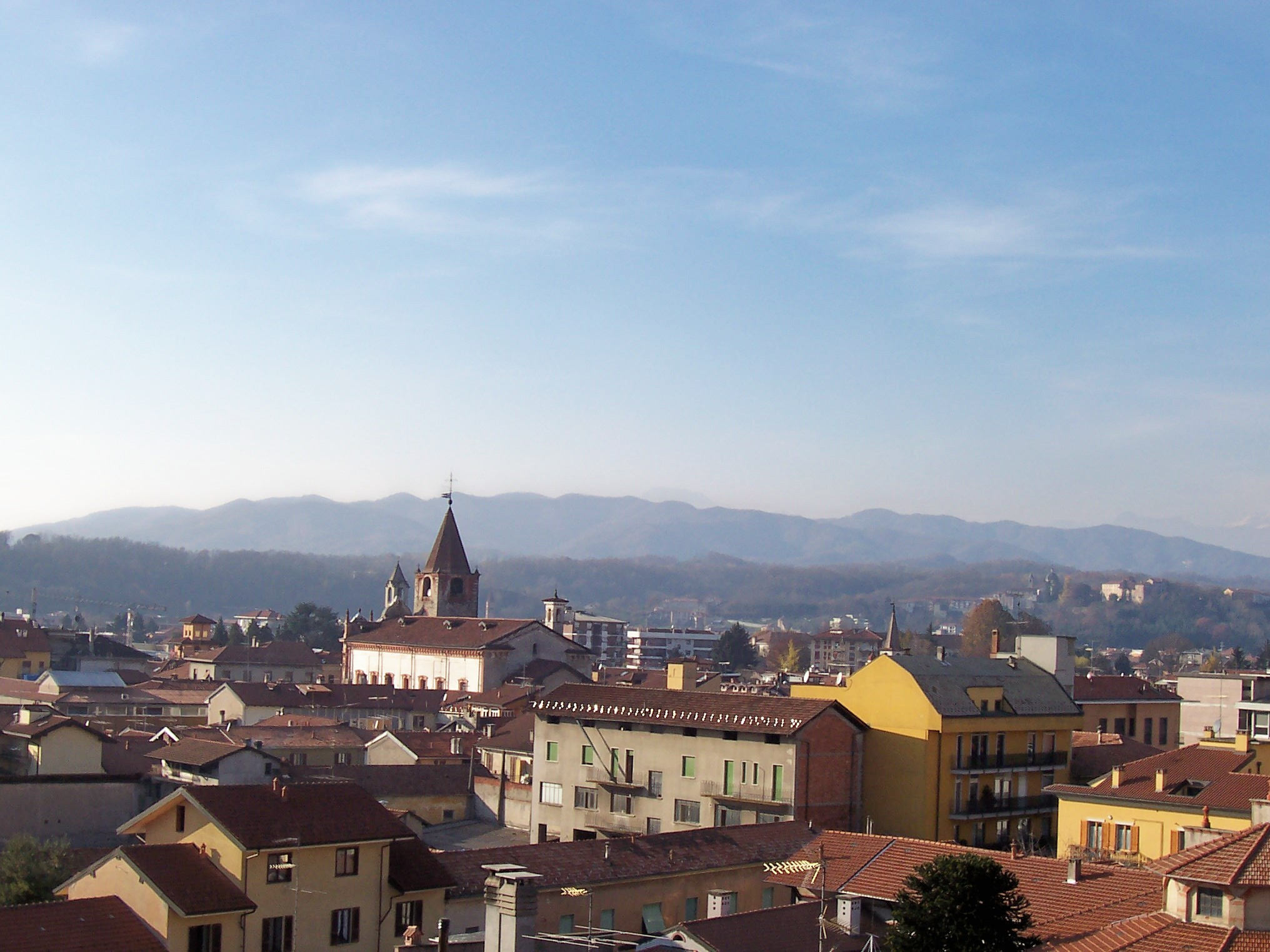 Panorama Source photographed by myself Photographer Pier Luigi Mora Date 20 November 2005 Camera Data Camera Kodak CX6330 zoom digital camera